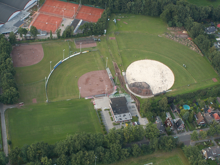 Cottonfield ballpark, Kotkampweg Enschede, Netherlands.